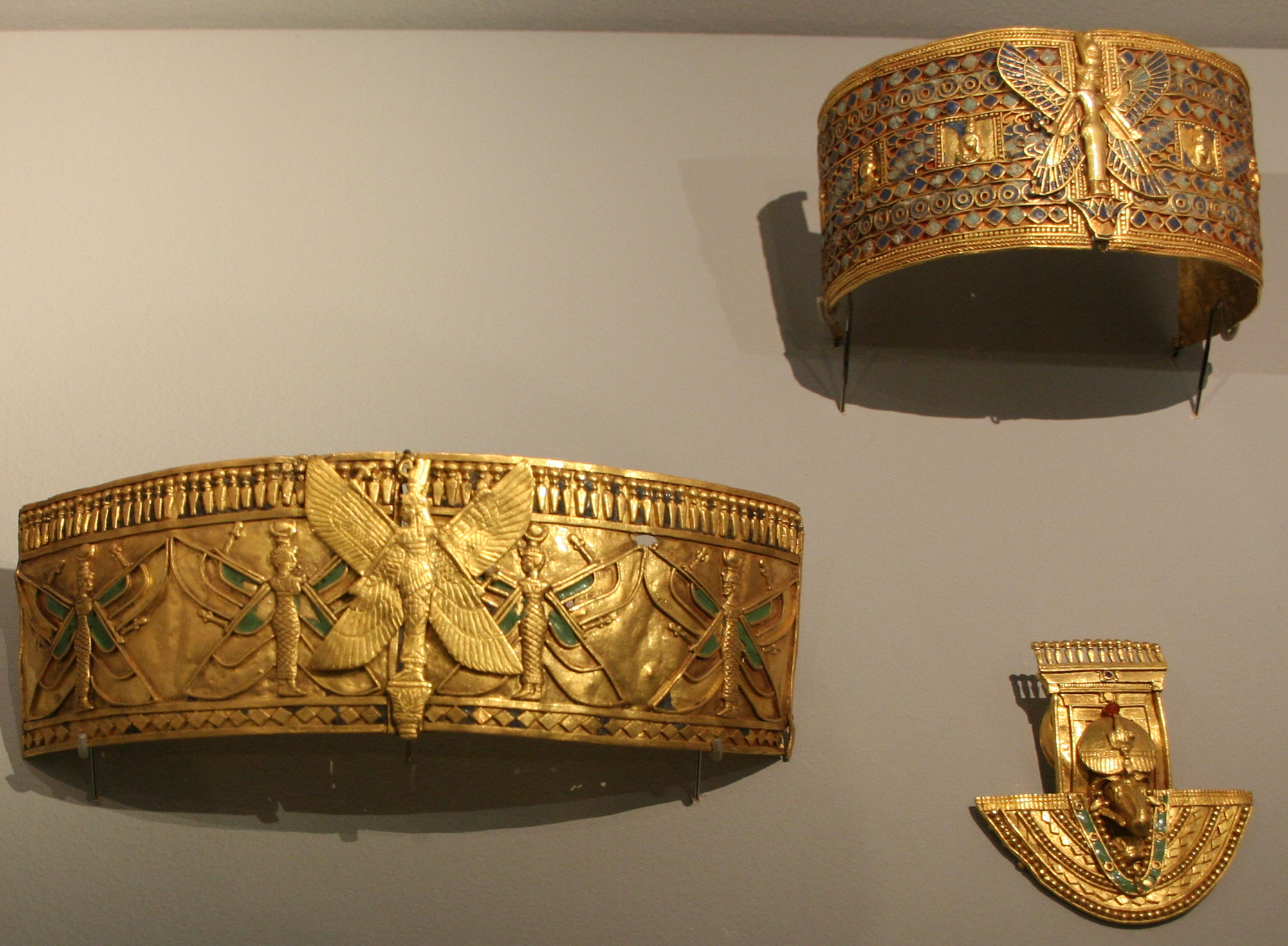 Jewellery of Amanishakheto from her pyramid at Meroe